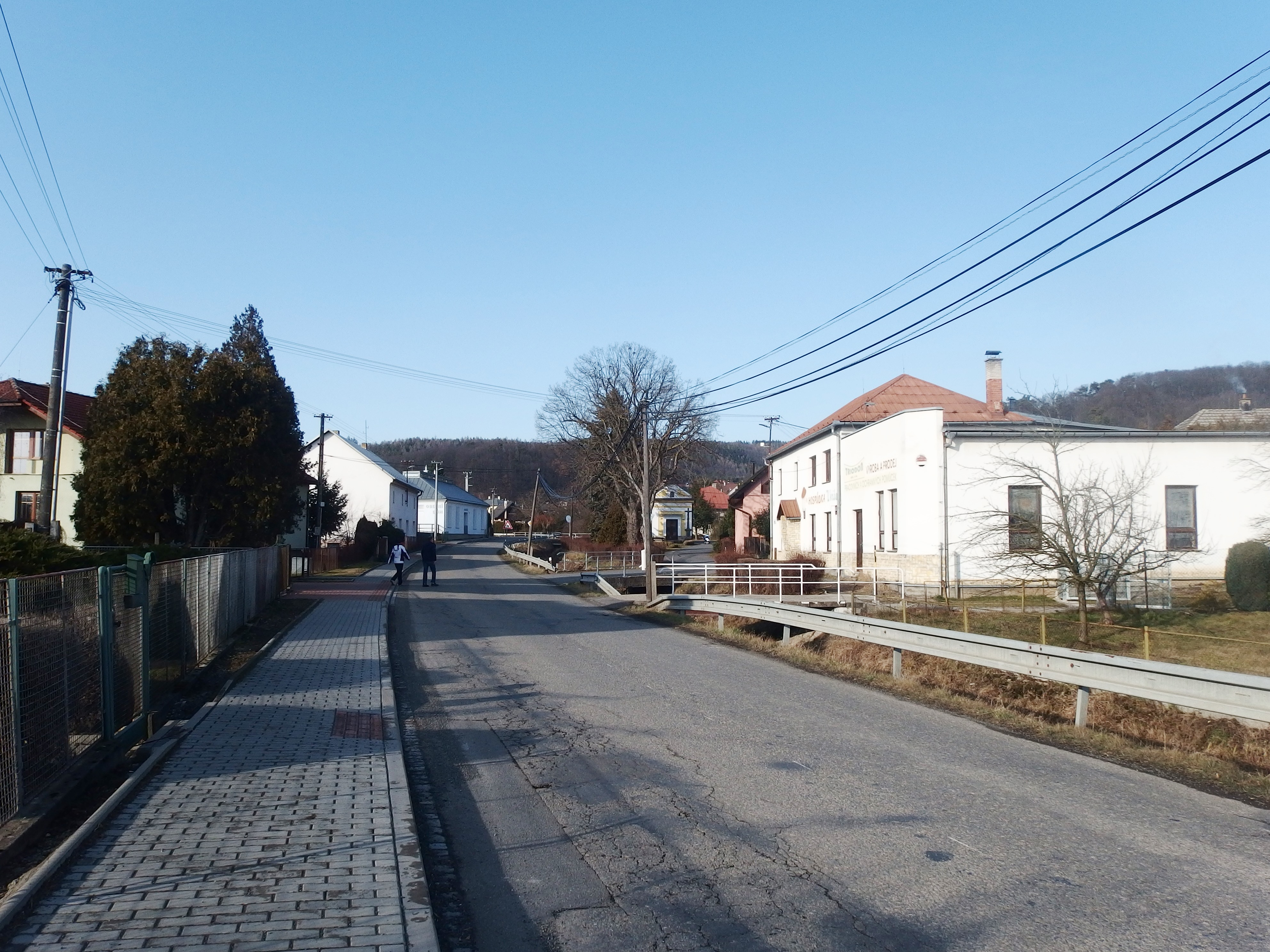 Lukoveček, Zlín District, Czechia.